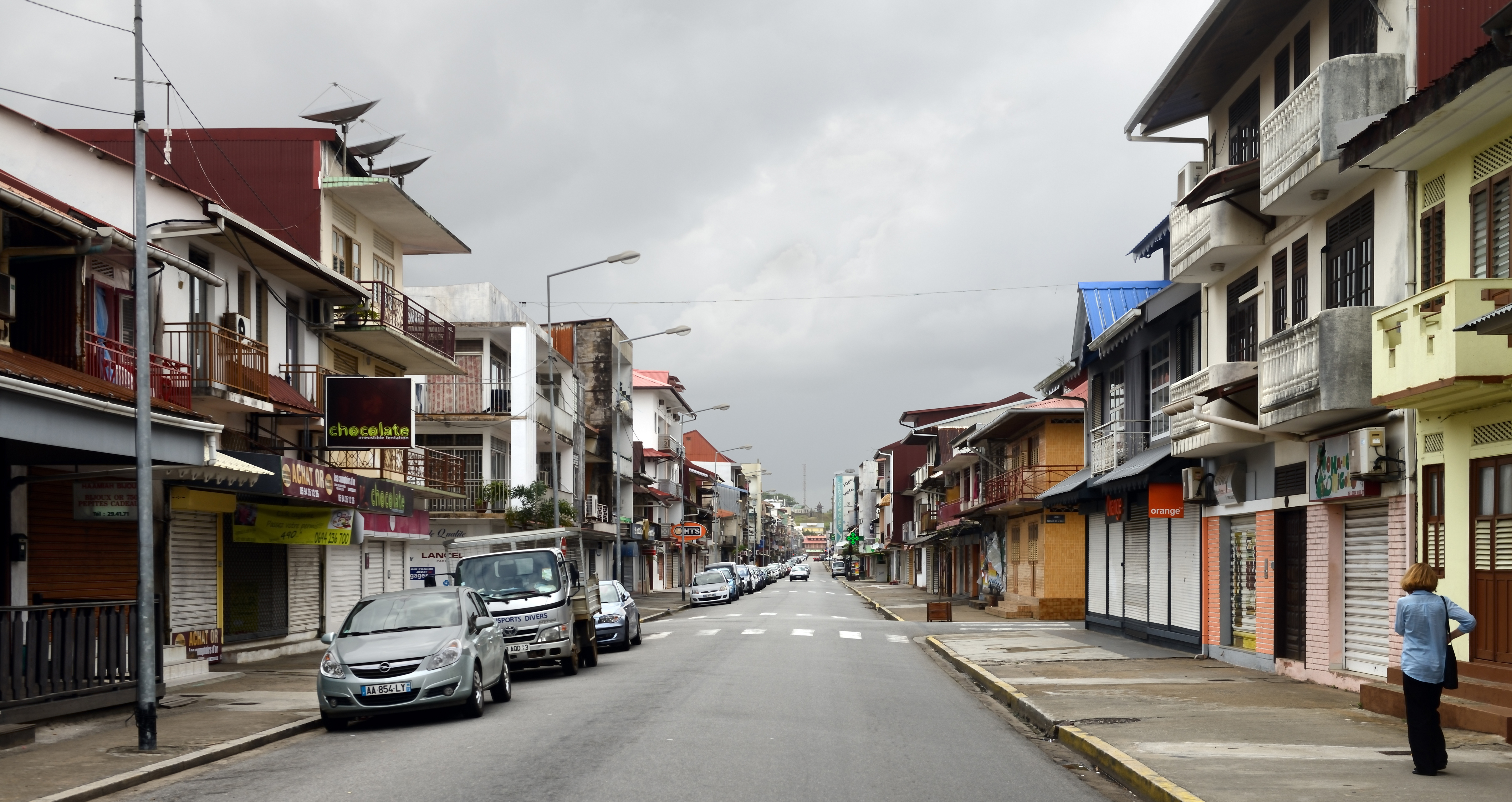 Cayenne, French Guiana: avenue du Général Charles-de-Gaulle towards place des palmistes and mont Cépérou.